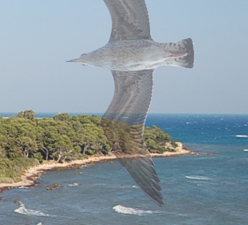 Example of transparency of a layer in image editing